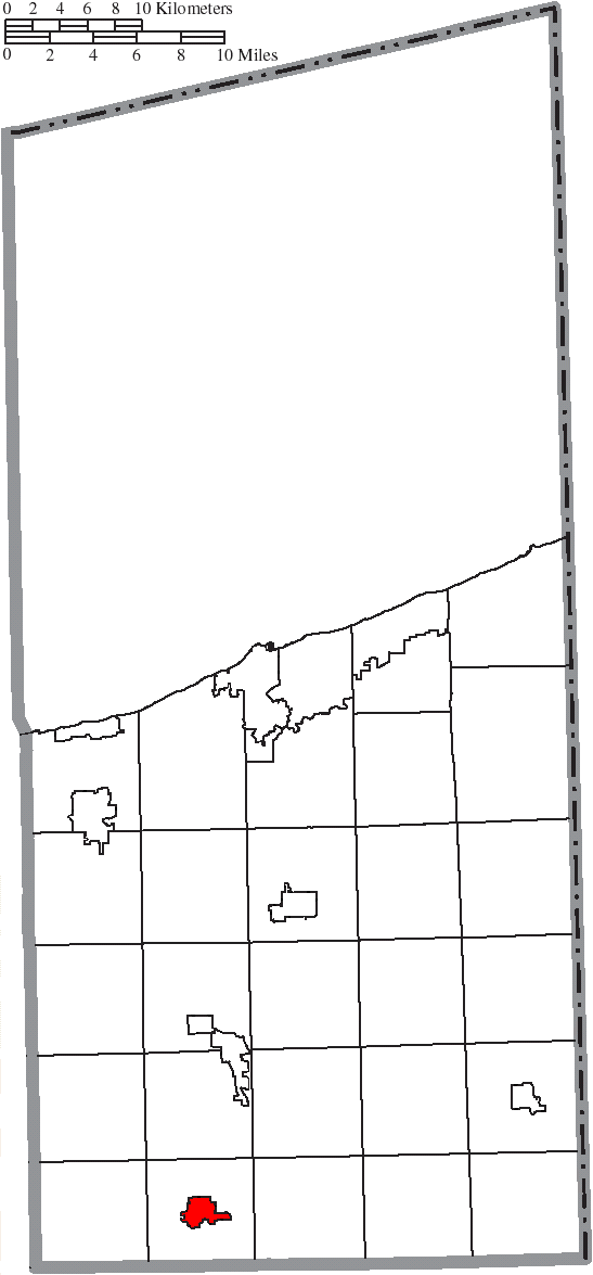 Map of the municipal and township boundaries of Ashtabula County, Ohio, United States, as of the 2000 census, with the location of the village of Orwell highlighted. Township borders are shown only in unincorporated areas in order to differentiate incorporated and unincorporated areas more clearly.